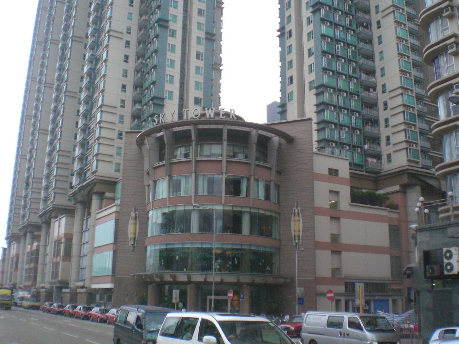 九龍城 傲雲峰 宋王臺道 北帝街